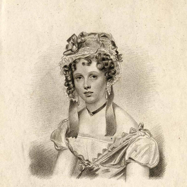 Description: Engraved portrait of Elizabeth Austin (1800–1835) as Rosetta in Thomas Arne’s Love in a Village Date: 1822 Engraver: William Holl Sr (1771-1838) after a portrait by Holroyd Source: University of Illinois at Urbana Library